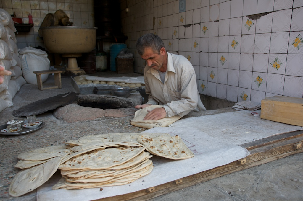 Taftoon bakery in Massouleh, Iran.jpg